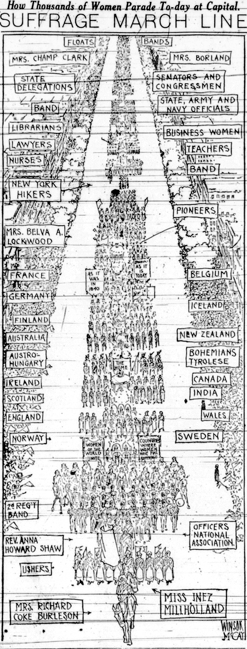 Diagram of the Woman Suffrage Parade of 1913. Women marchers organized by country, state, occupation, and organization, led by Miss Inez Milholland and Mrs. Richard Coke Burleson, during the suffrage march, March 3, 1913, Washington, D.C. Caption reads: "Suffrage march line. How thousands of women parade today at Capitol 1913." Illus. in: New York evening journal. New York, [N.Y.] : Star Co., 1913 March 4, p. 2, col. 4.